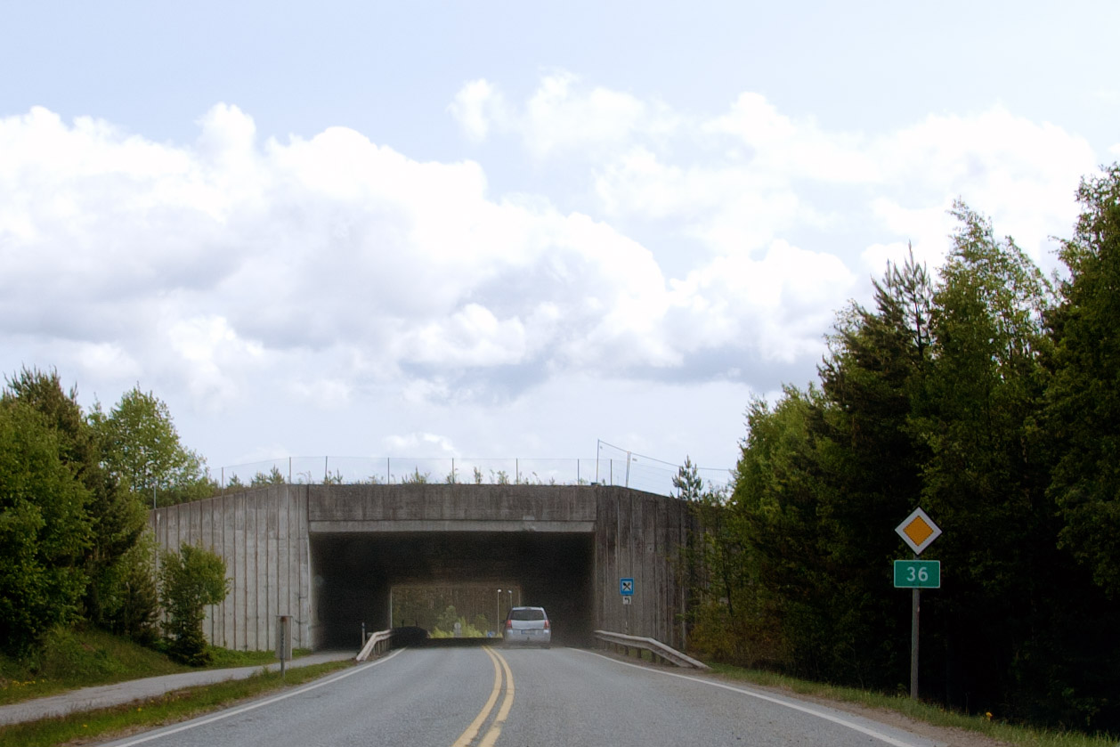 Geiteryggtunnelen. A road tunnel on national road 36, in Skien, Telemark, Norway.